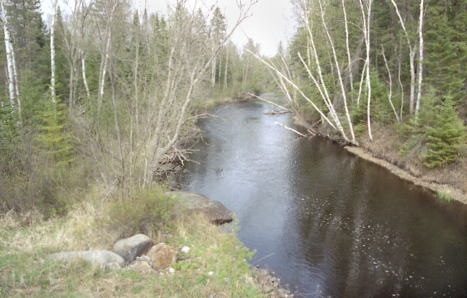 The Saint Louis River near Hoyt Lakes in the Superior National Forest, 18 May 2003.